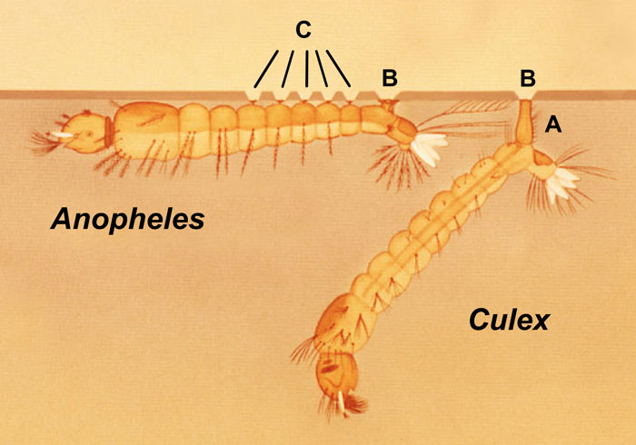 Lateral view showing an Anopheles and Culex larva in their charcteristic feeding positions. A: breathing tube; B: breathing opening; C: palmate hairs (float hairs), specialized, partly hydrophobic hairs that hold the larva of Anopheles parallel to the water's surface. They resemble small palm trees.